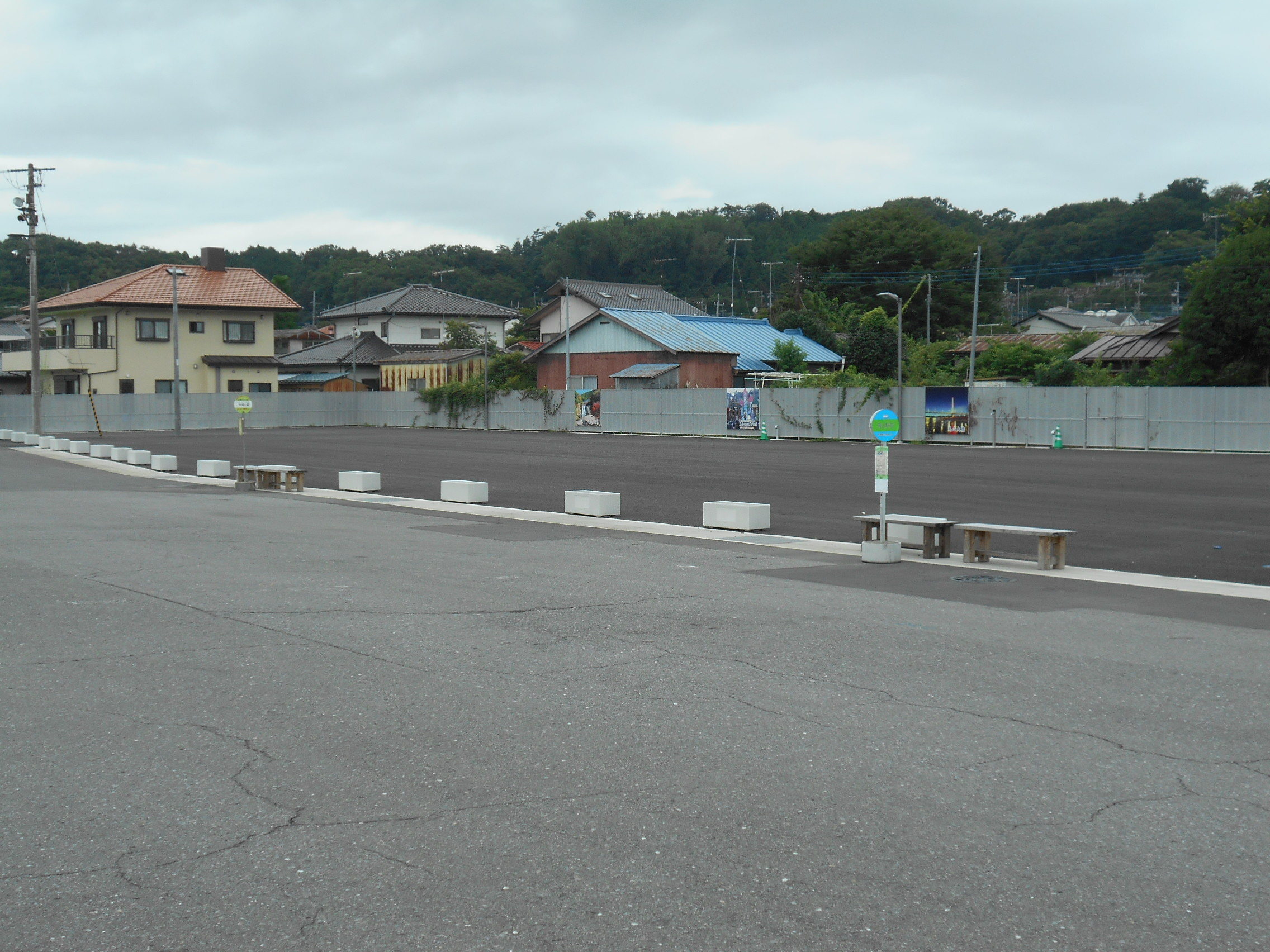 The bus stop in front of Karasuyama Station on the Karasuyama Line in Tochigi Prefecture, Japan